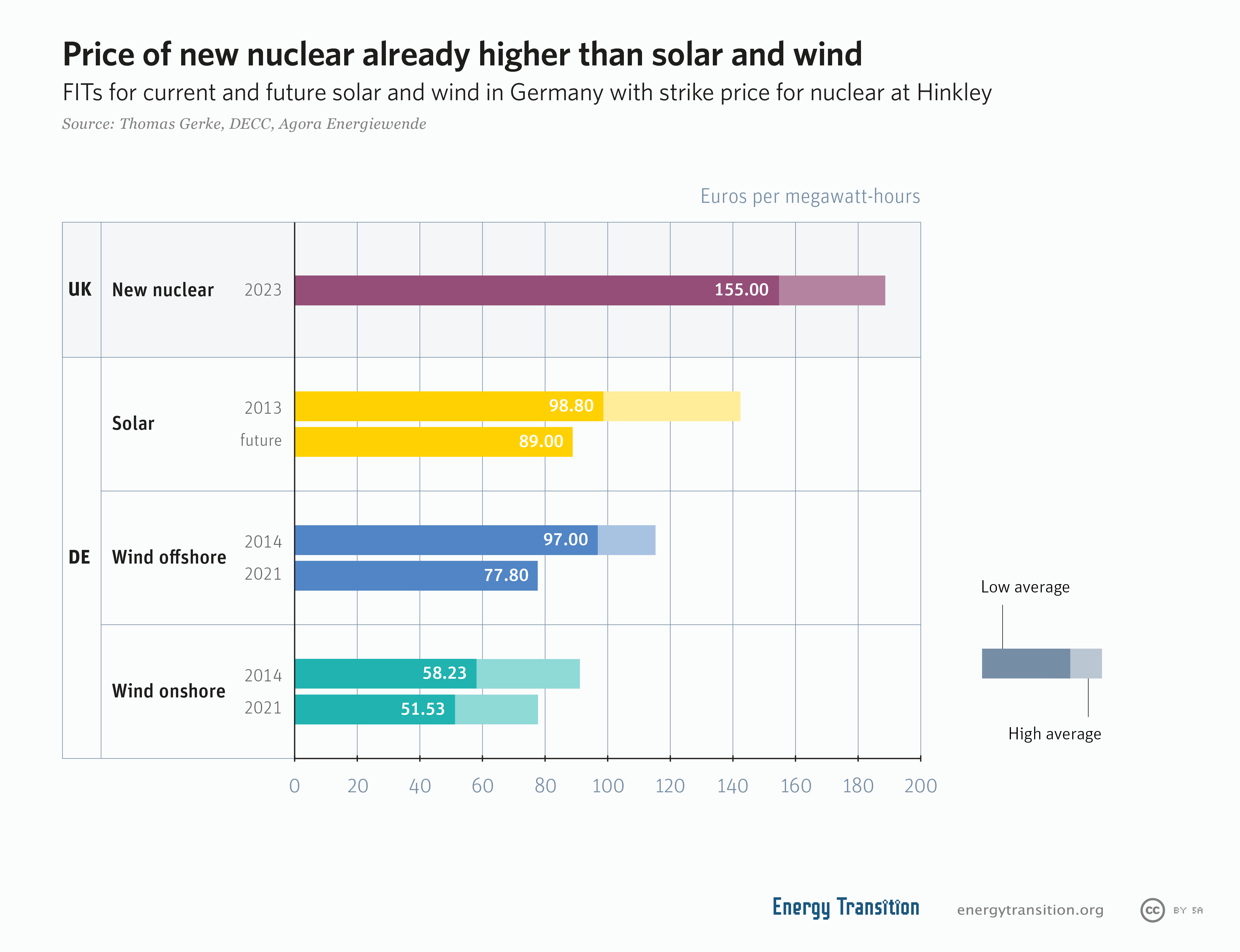 Feed-in tariff for current an future solar and wind in Germany with strik price for nuclear at Hinkley